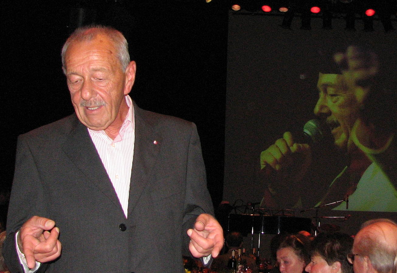 Christian Wallner